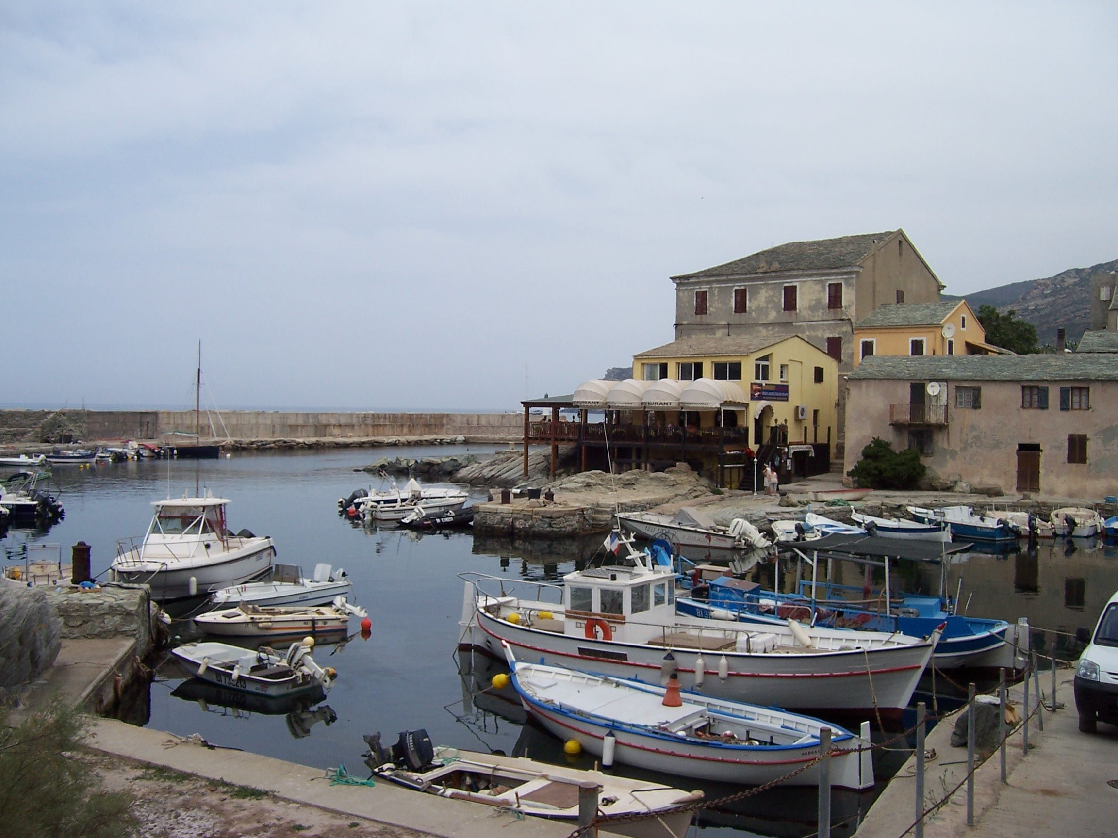 Port of Centuri (Corsica)